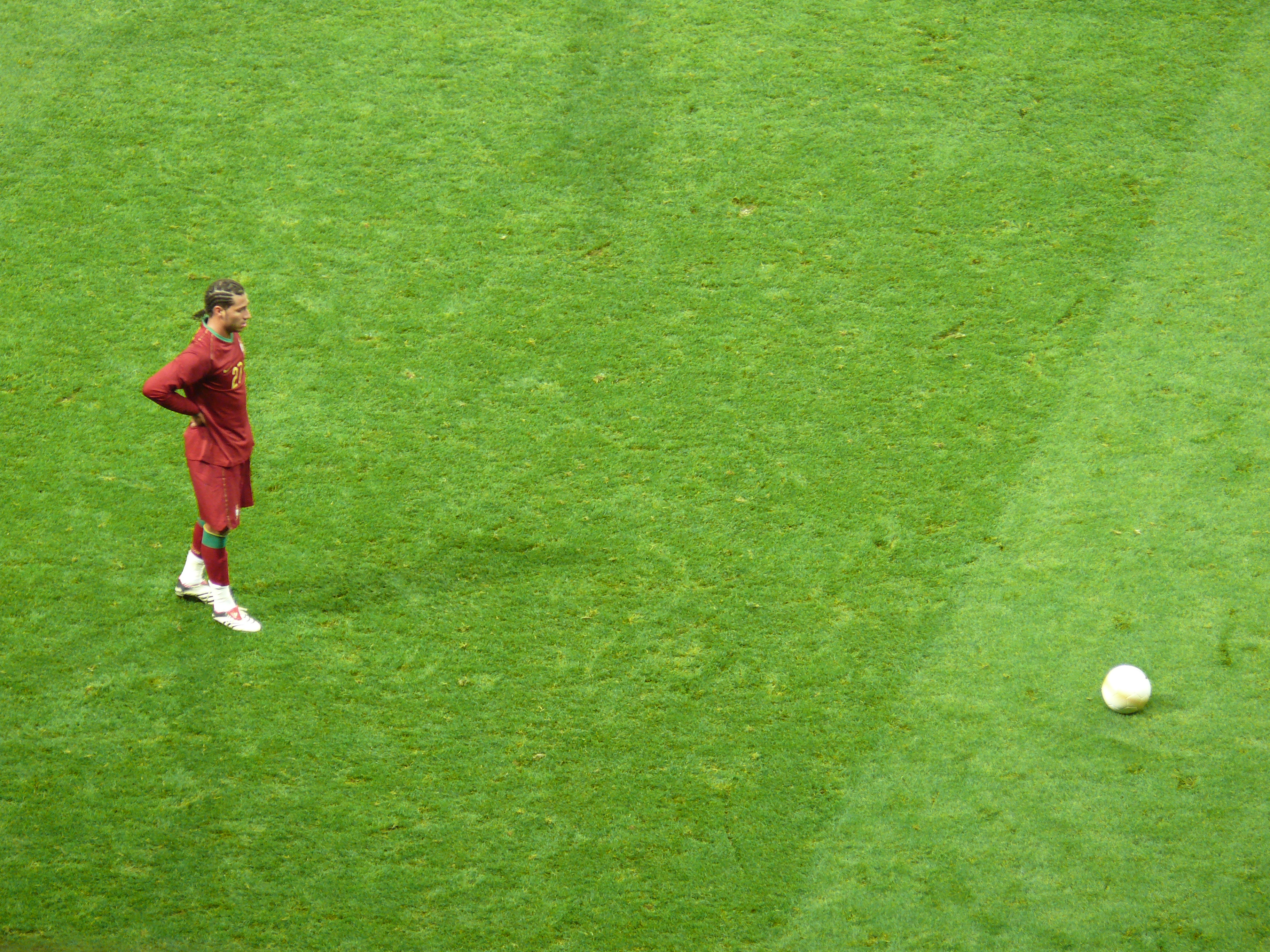 Considers a Set Piece